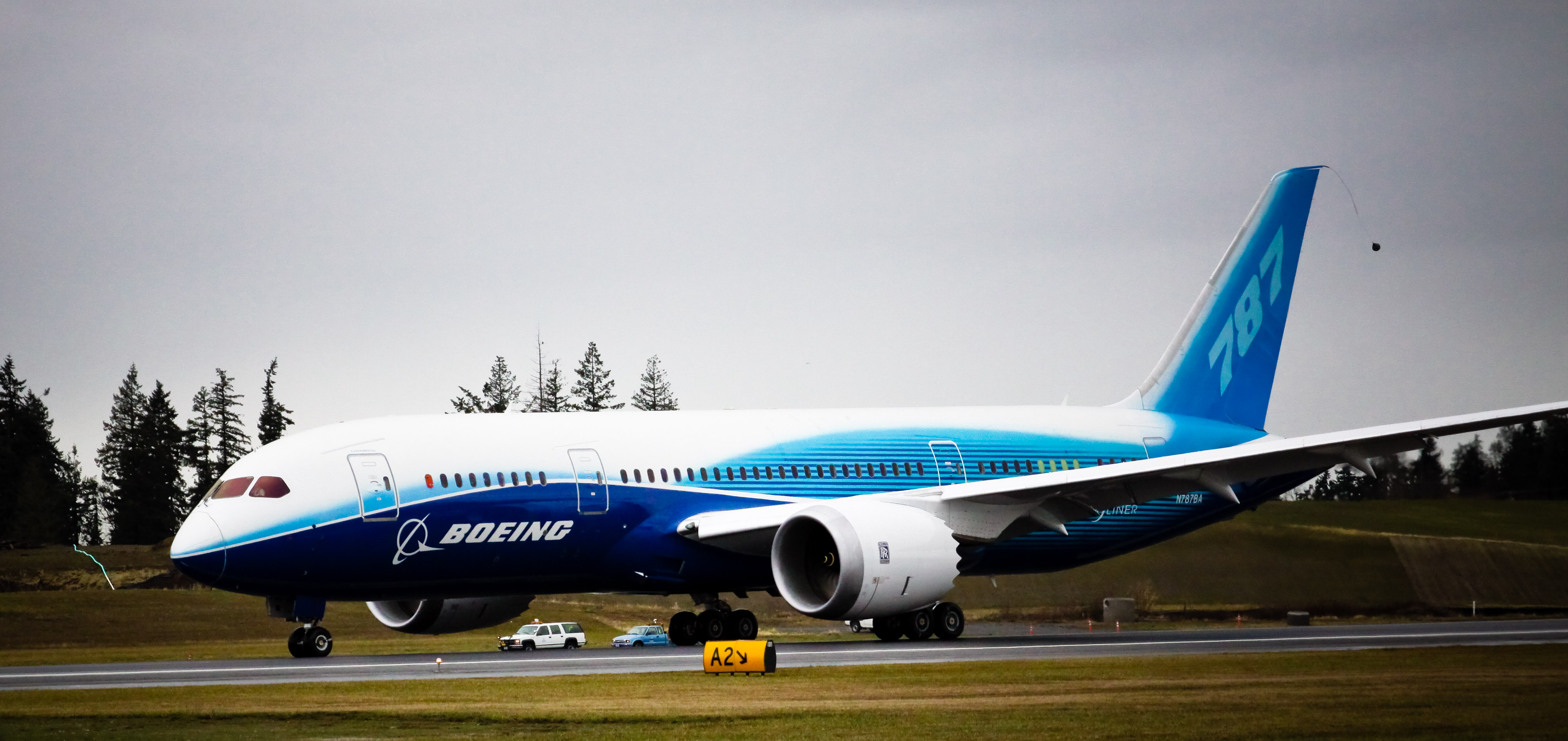 Prior to the first flight of Boeing 787 Dreamliner on December 15, 2009.